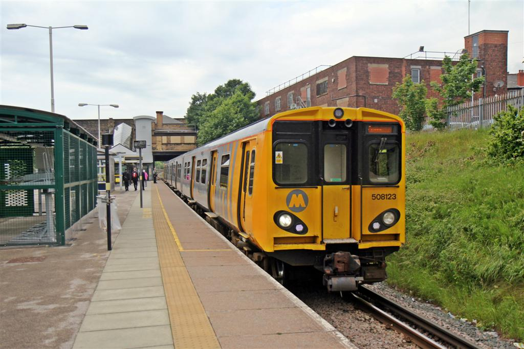 Arriving, Waterloo Railway Station, Liverpool